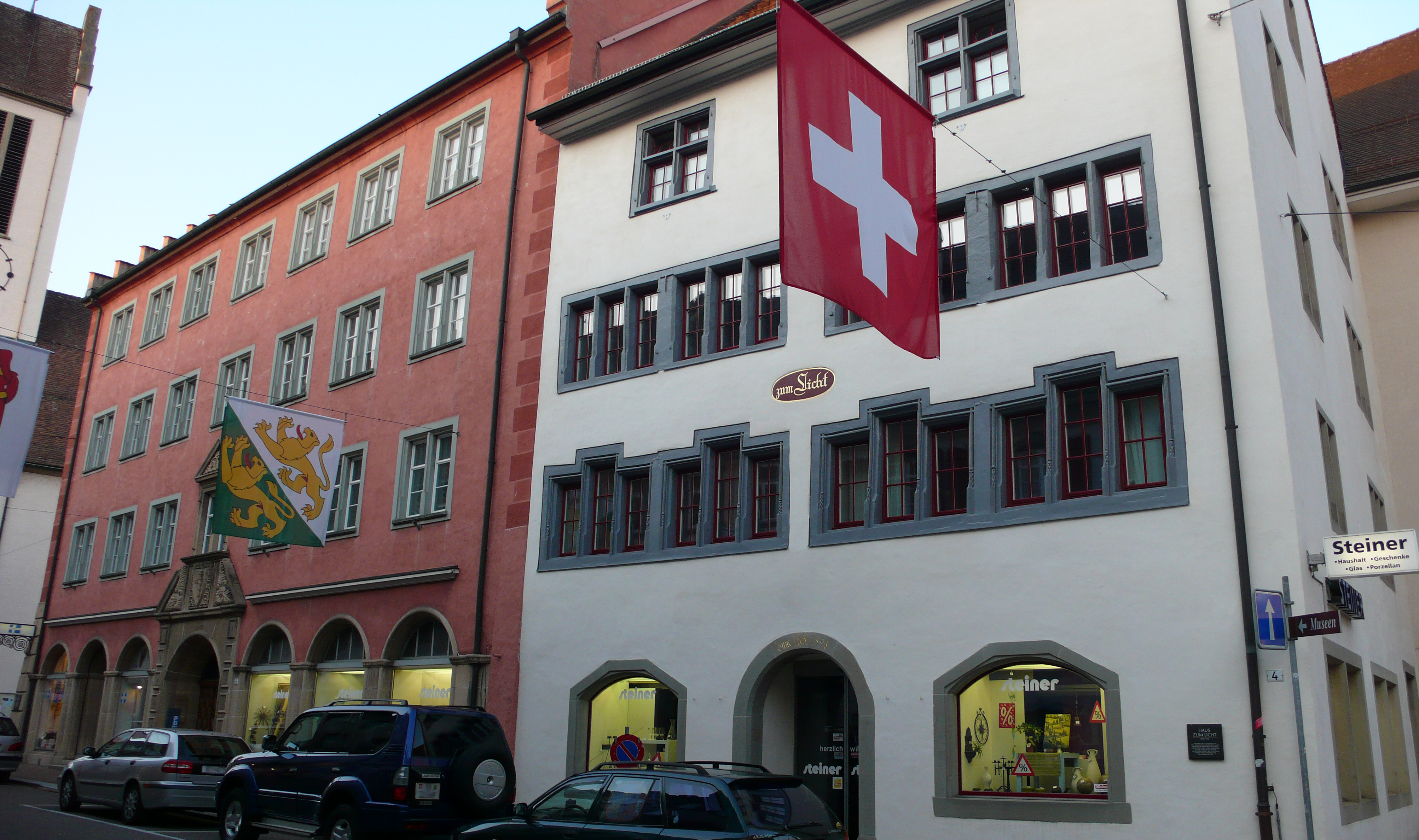 Haus zum Schwert (left) and Haus zum Licht (right) in the old town of Frauenfeld, Switzerland